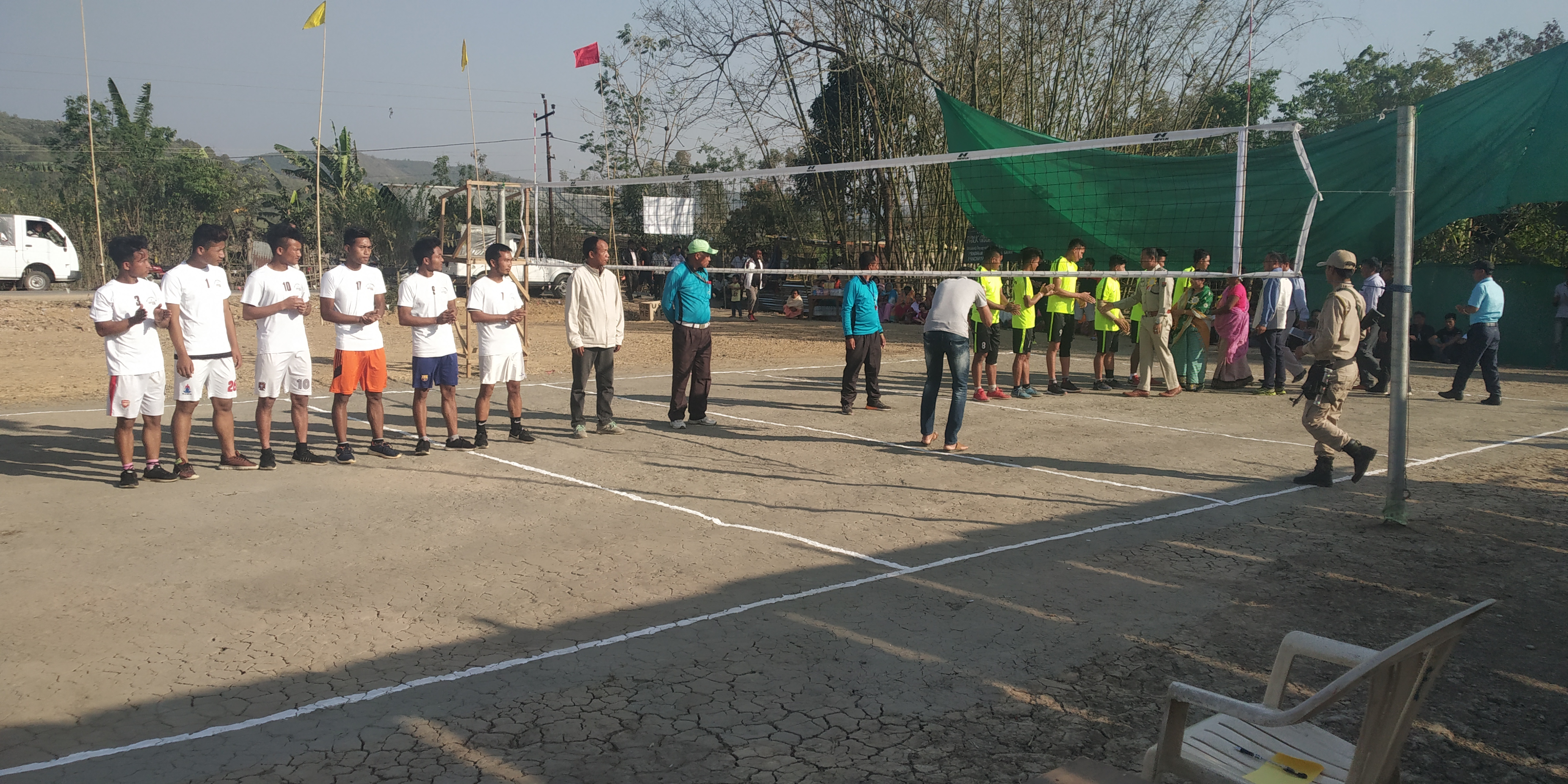 CKWC (Chajing khunou Welfare Club) organized 1st state level Volleyball Men's in Chajing khunou , March 24 - March 28 in 2019.